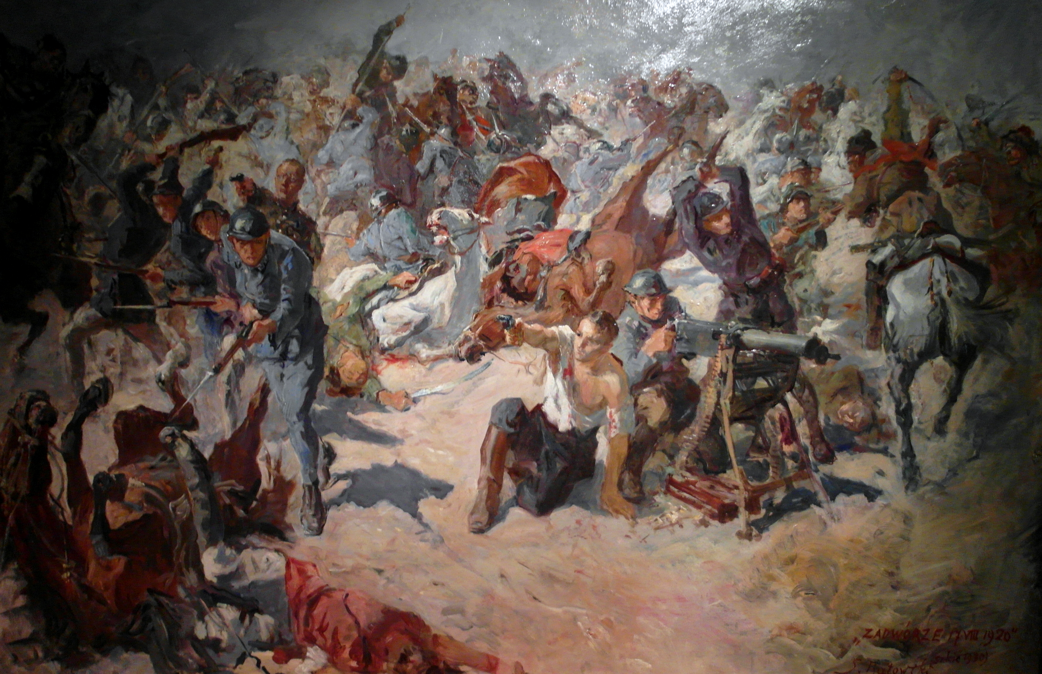 Battle of Zadwórze (1920) by Stanisław Kaczor-Batowski